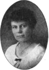 A young white woman's face and shoulders, in an oval frame. She is wearing a white blouse with a scooped neck.